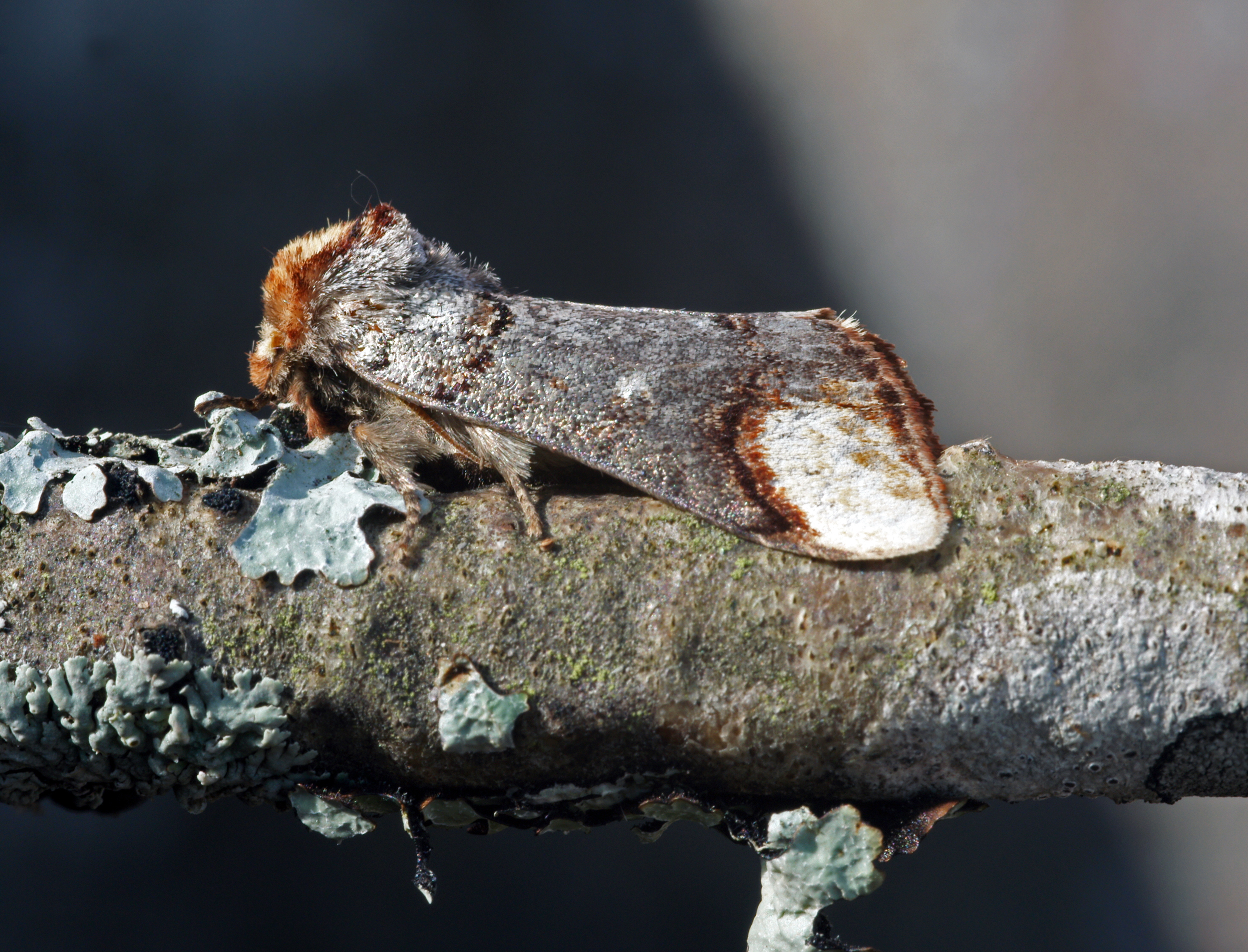 Buff-tip (Phalera bucephala).